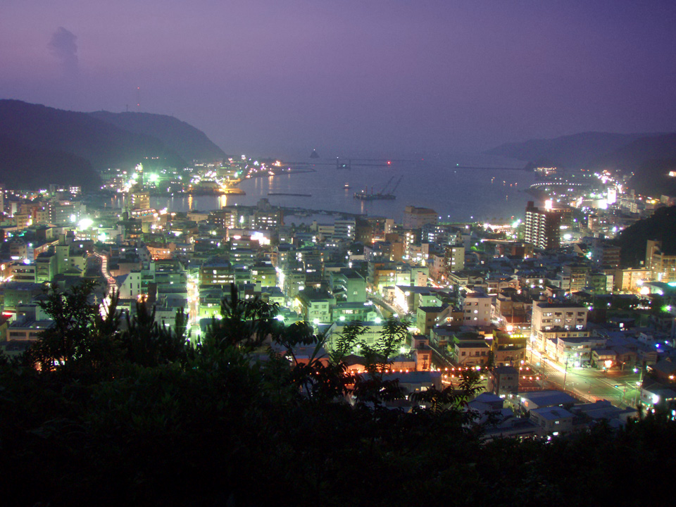 Night view of Naze city from Ogami-yama in Naze, Amami-shi, Kagoshima-ken, Japan.